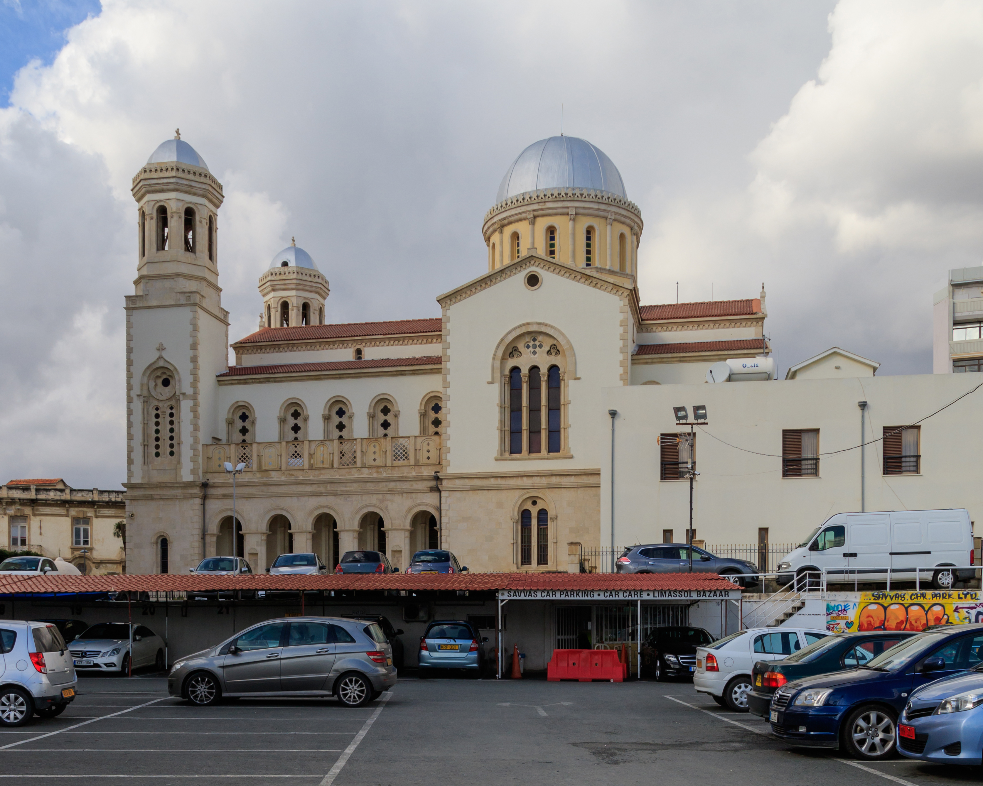 Agia Napa Cathedral in Limassol, Cyprus